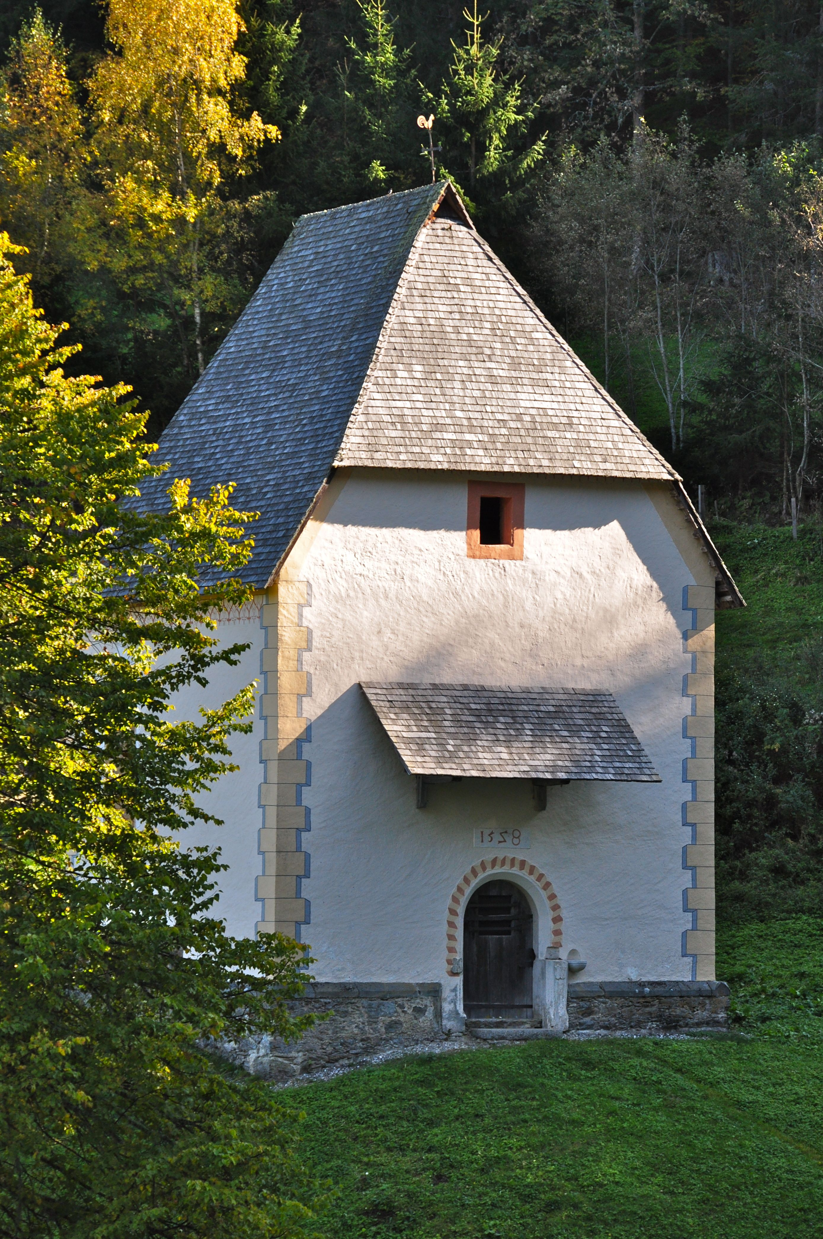 Chapel Holy Leonard from 1528 at Benesirnitz, municipality Albeck, district Feldkirchen, Carinthia, Austria, EU